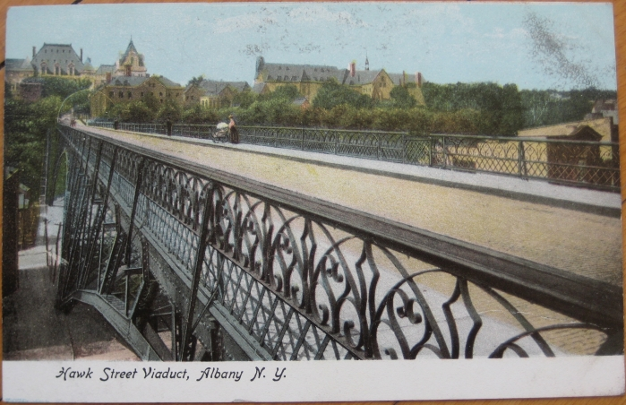 1905 postcard of Hawk Street Viaduct in Albany, New York facing west towards State Capitol and Cathedral of All Saints' (Episcopal)